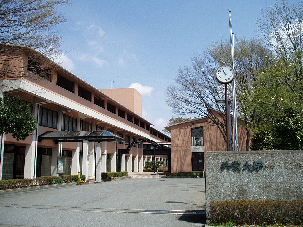 The entrance to the Faculty of Education, Kyoei University, located in Uchimaki, Kasukabe, Saitama Prefecture, Japan.